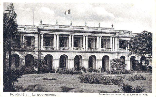 Raj Nivas after independance.